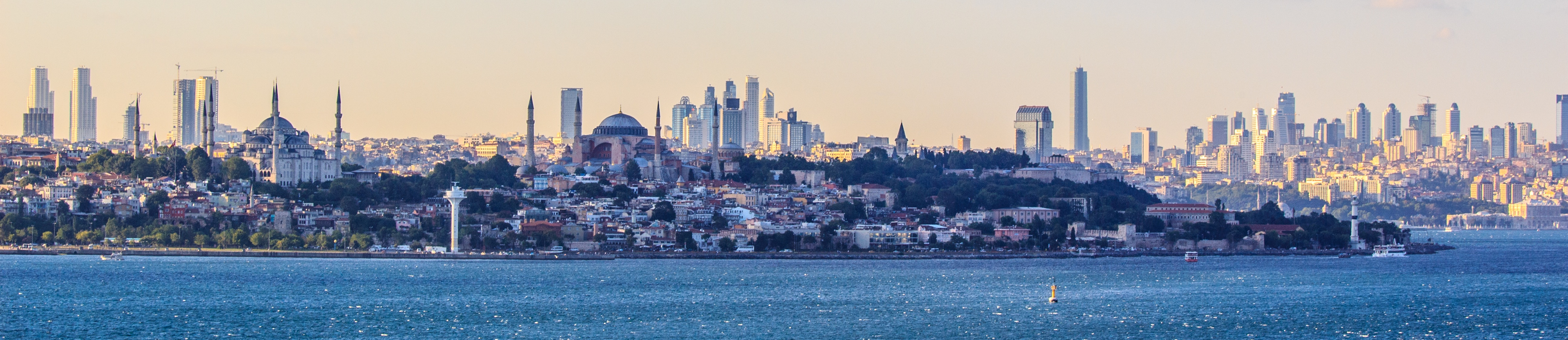 Panorama of Istanbul, including the historic peninsula and modern skyline